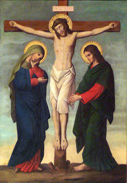 Crucifixion, part of a series depicting the stations of the Cross. Chapel Nosso Senhor dos Passos, Santa Casa de Misericórdia of Porto Alegre, Brazil. Oil on canvas, 19th century, unknown author.